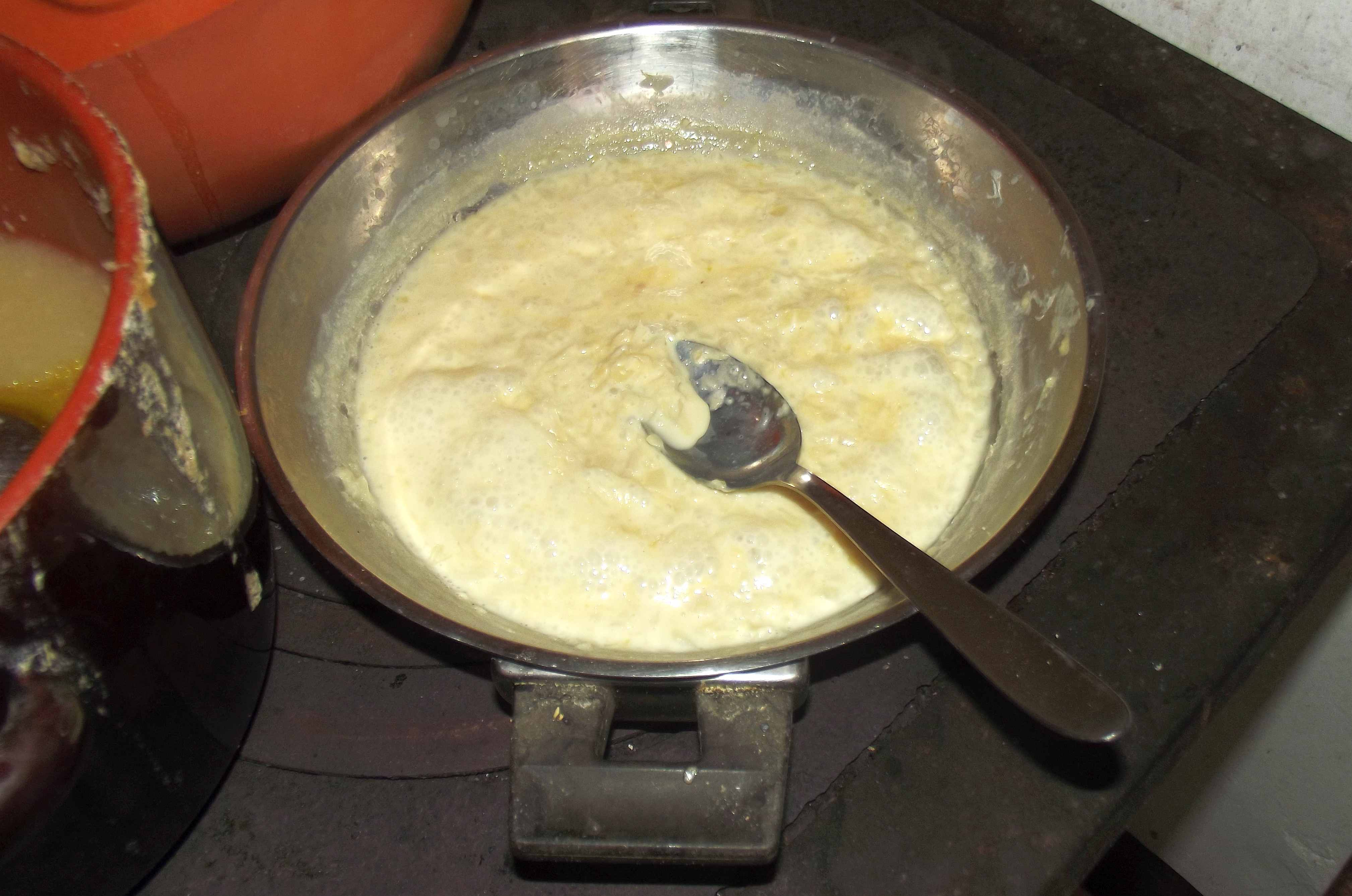 Cooking bagna càuda on a stove before anchovies addition